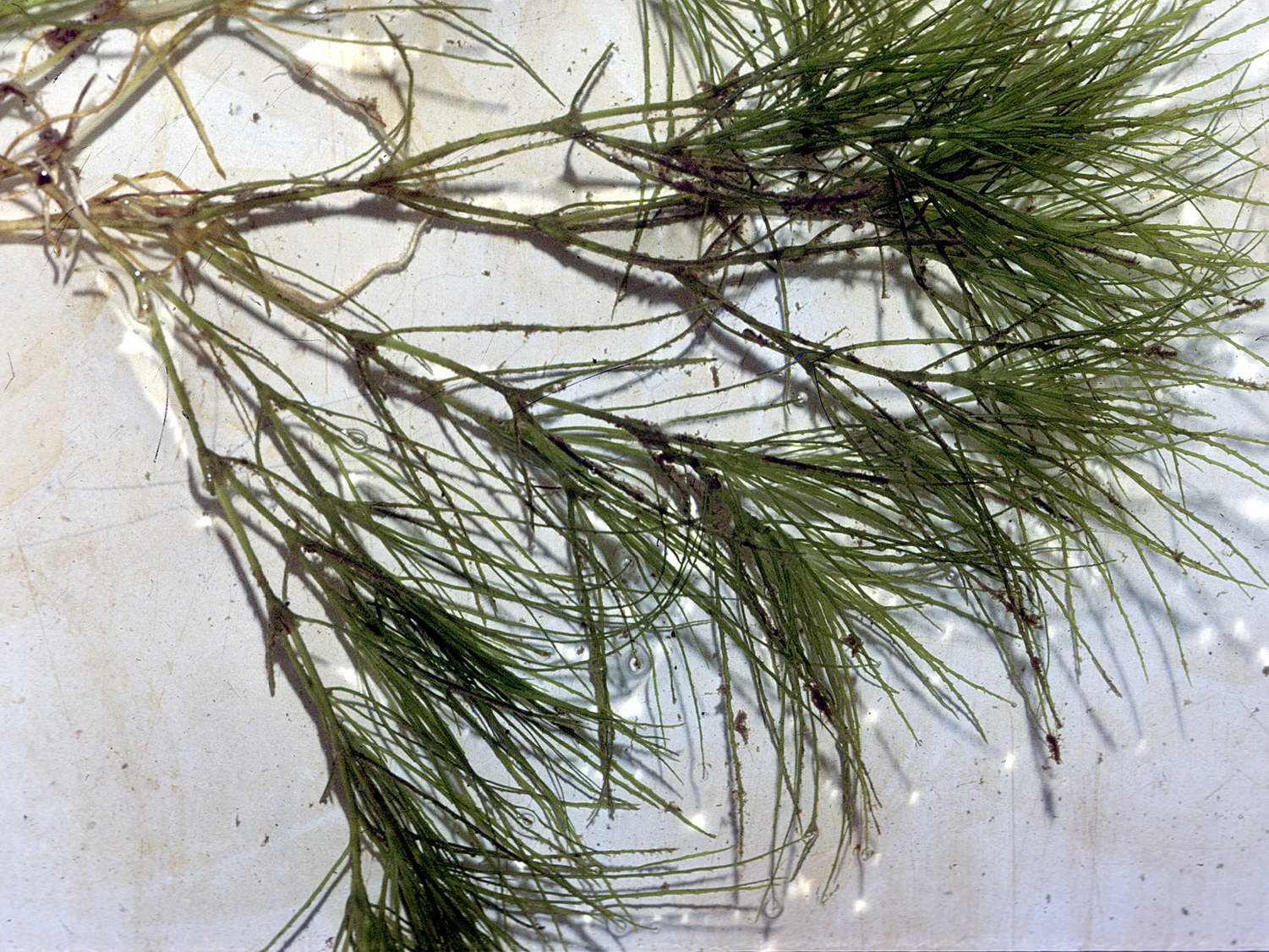 Najas minor All. - brittle waternymph